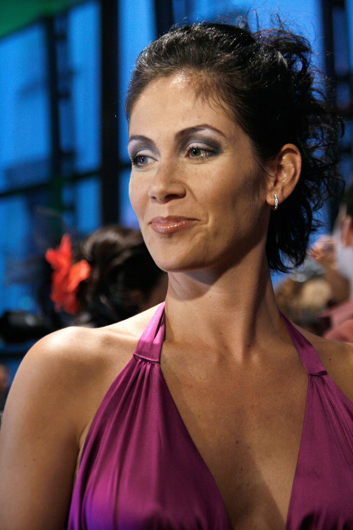 Adriana Zartl at the charity ball dancer against cancer (Hofburg Imperial Palace, Vienna)